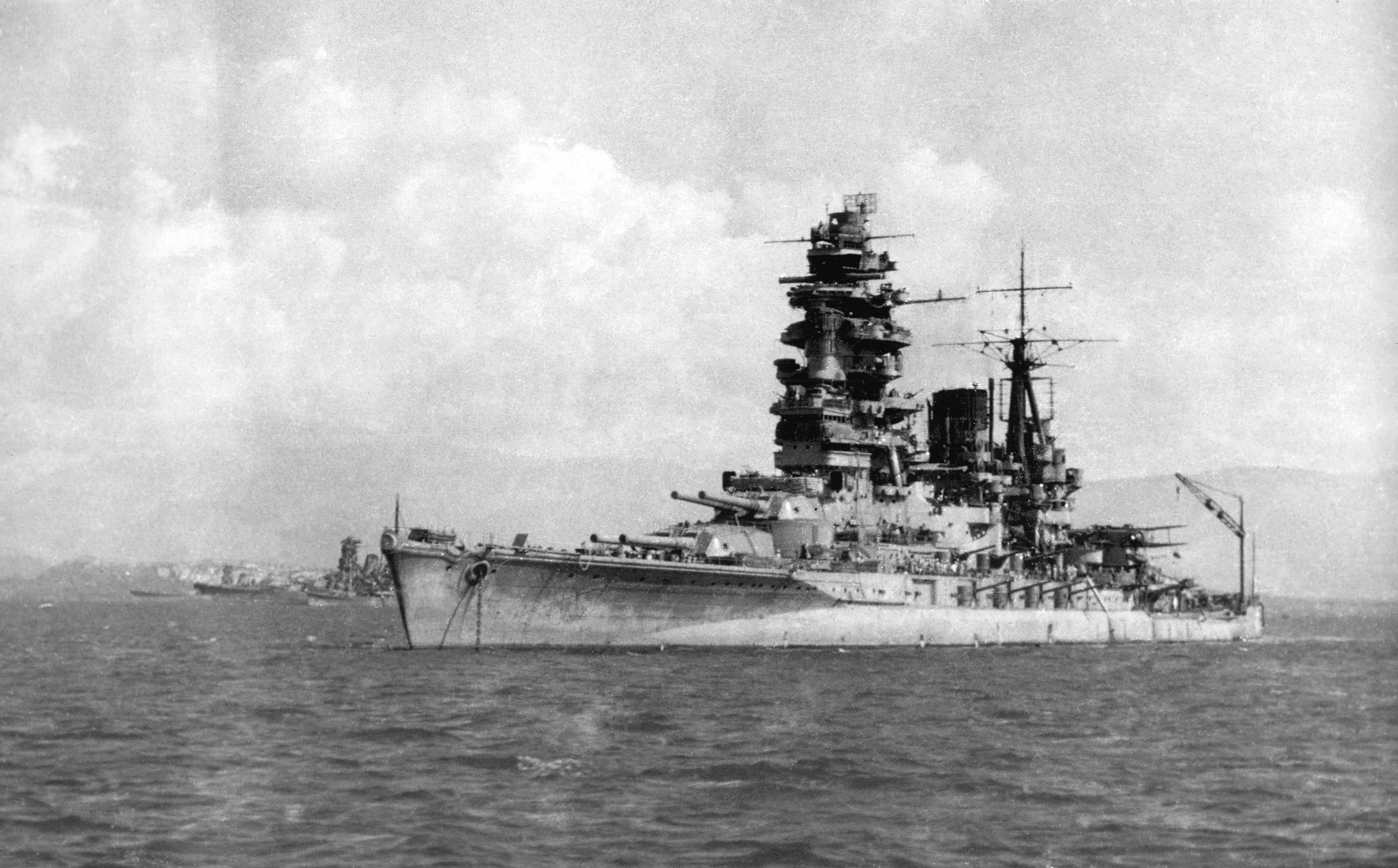 Japanese Battleship Nagato. at Brunei, Borneo